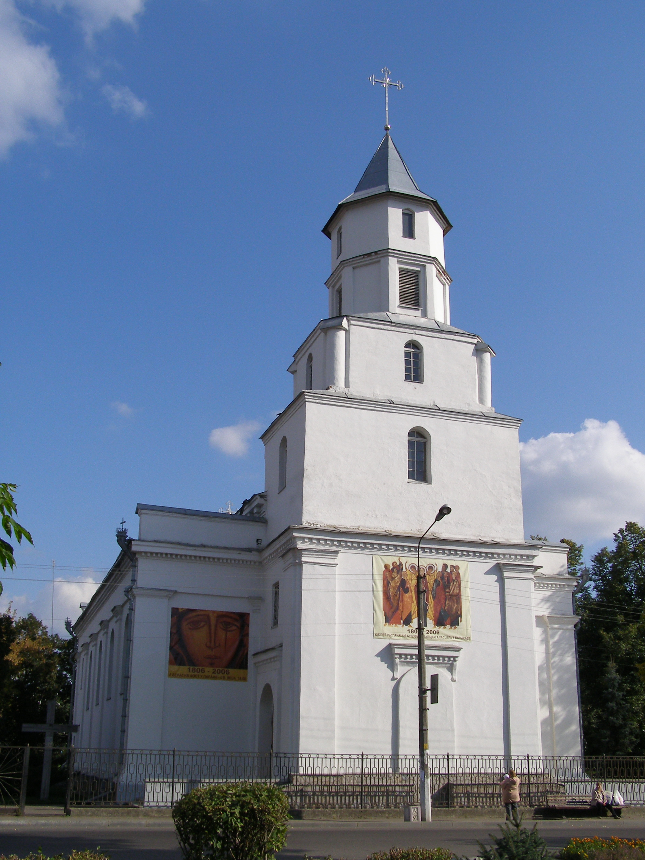 Catholic Church in Barysaŭ